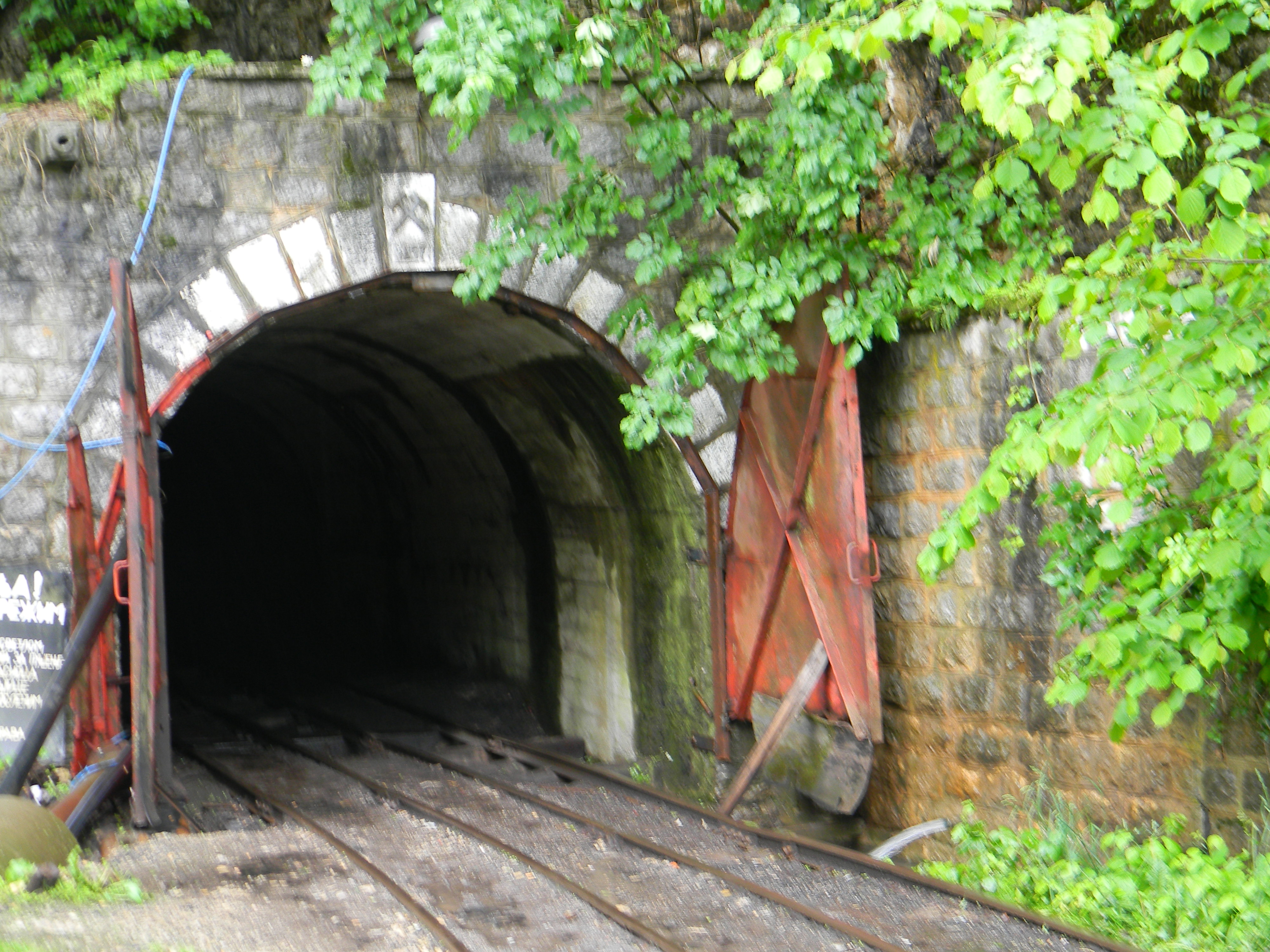 Mine Vodna near Stenjevac, Serbia